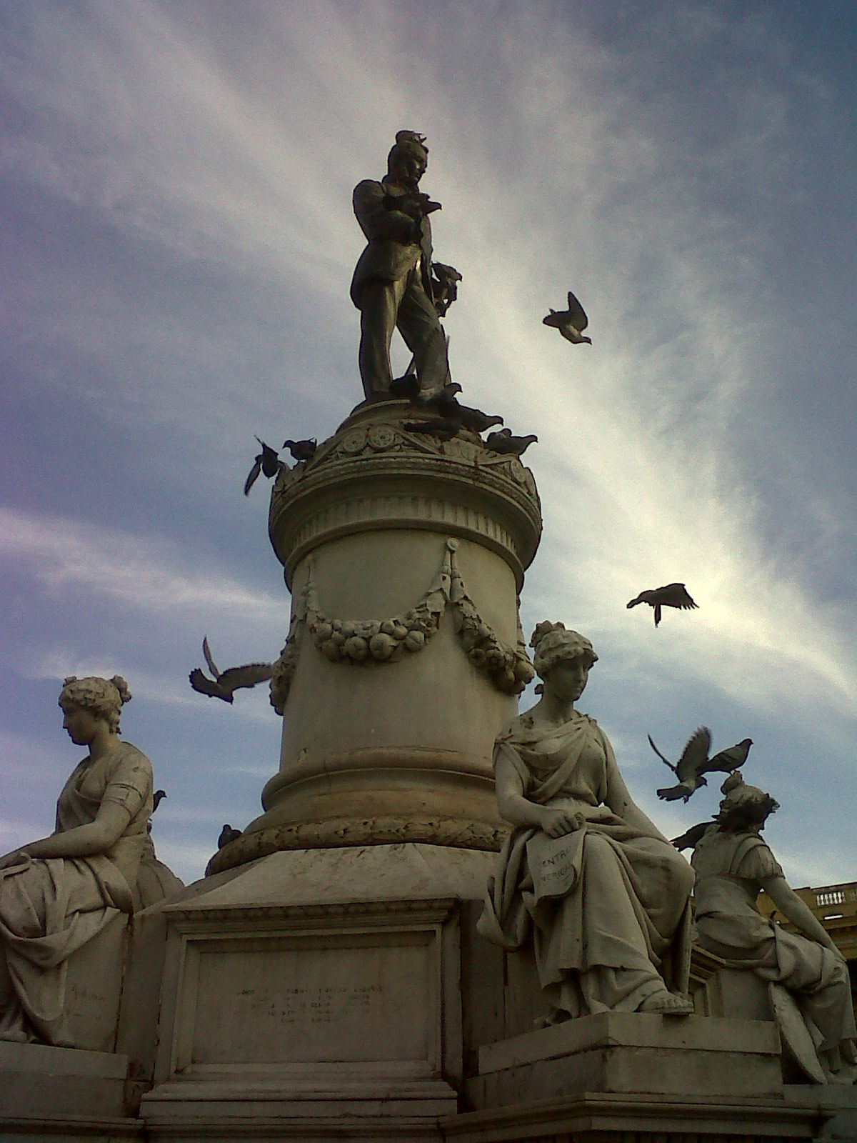 La Plaza Francisco Morarán está ubicada en el centro histórico de la ciudad de San Salvador, El Salvador. En el lugar destaca el monumento al héroe centroamericano Francisco Morarán, que contiene altorrelieves de batallas protagonizadas por el caudillo, y figuras que representan a las cinco naciones que formaron la República Federal de Centro América. Es considerado el monumento más antiguo de esta ciudad.1 Al costado sur de la plaza, se encuentra el Teatro Nacional de San Salvador.